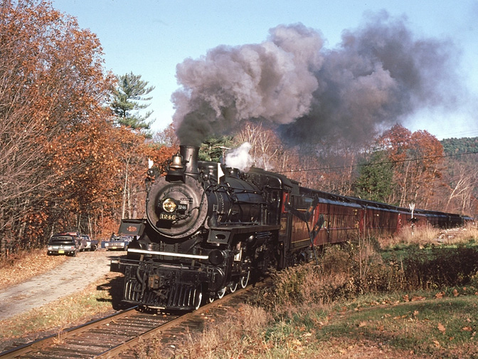 Canadian Pacific 4-6-2 locomotive westbound at Brockways Mills, VT., pulling a Steamtown passenger excursion, October 24, 1981